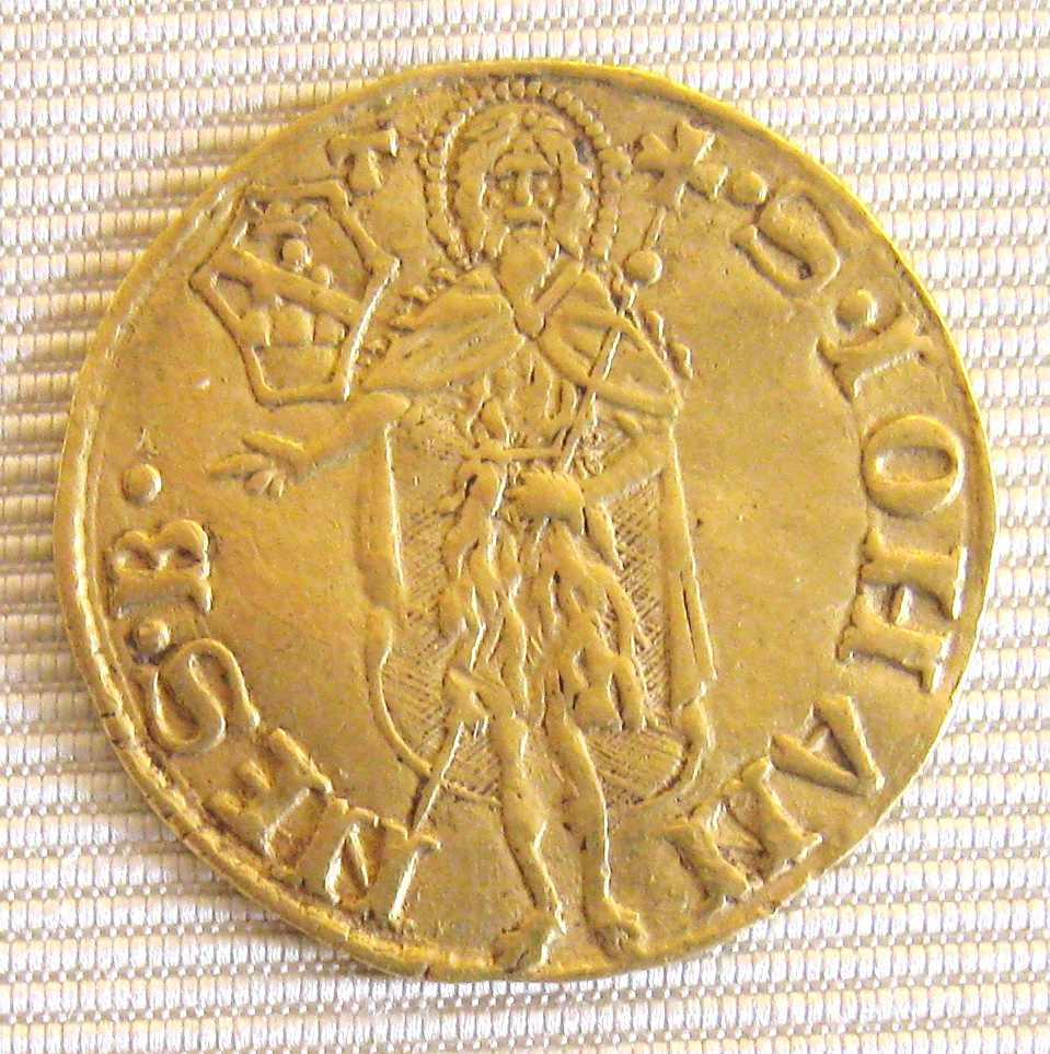 Italian Florin (gold coin), series XXVII, 1462 AD